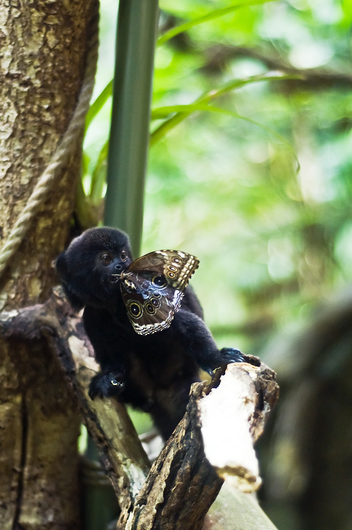 A Goeldi's monkey (Callimico goeldii) eating a morpho butterfly.